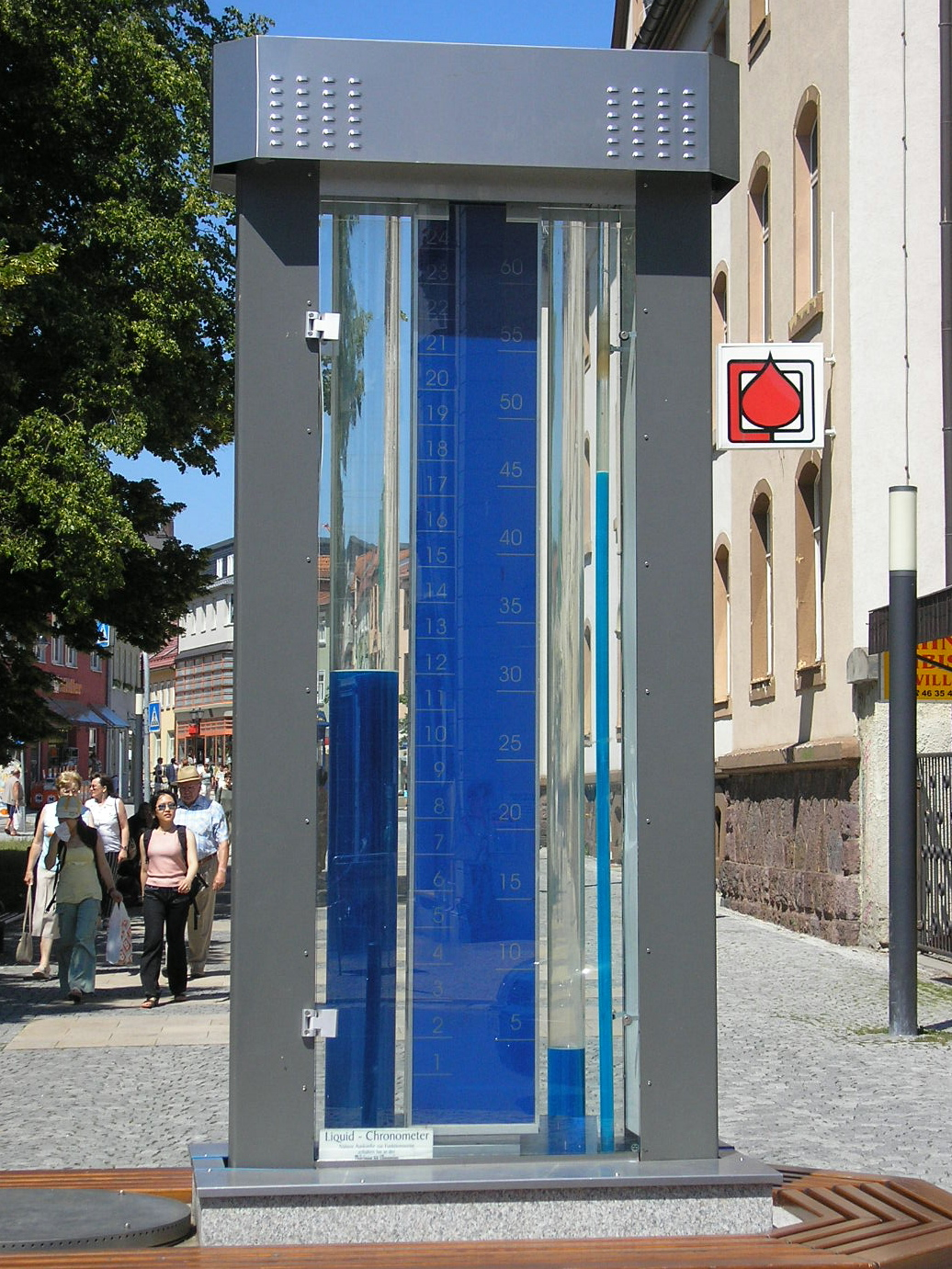 The liquid stop watch in Ilmenau (Thuringia). It acts here around a clock, which indicates the time by the height to a liquid column. Source: even photographs